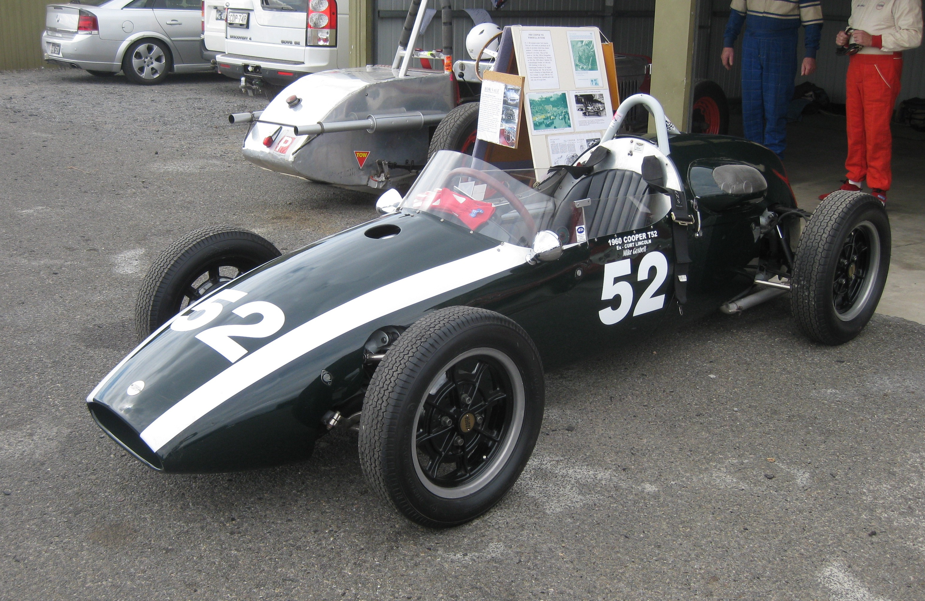 The Cooper T52 Formula Junior of Mike Gosbell at Mallala Motor Sport Park in 2012